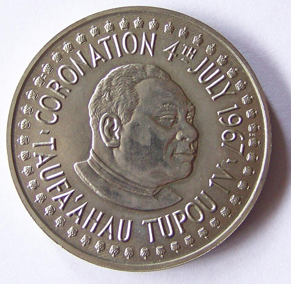 Obverse of a 2 Pa'anga coin of Tonga